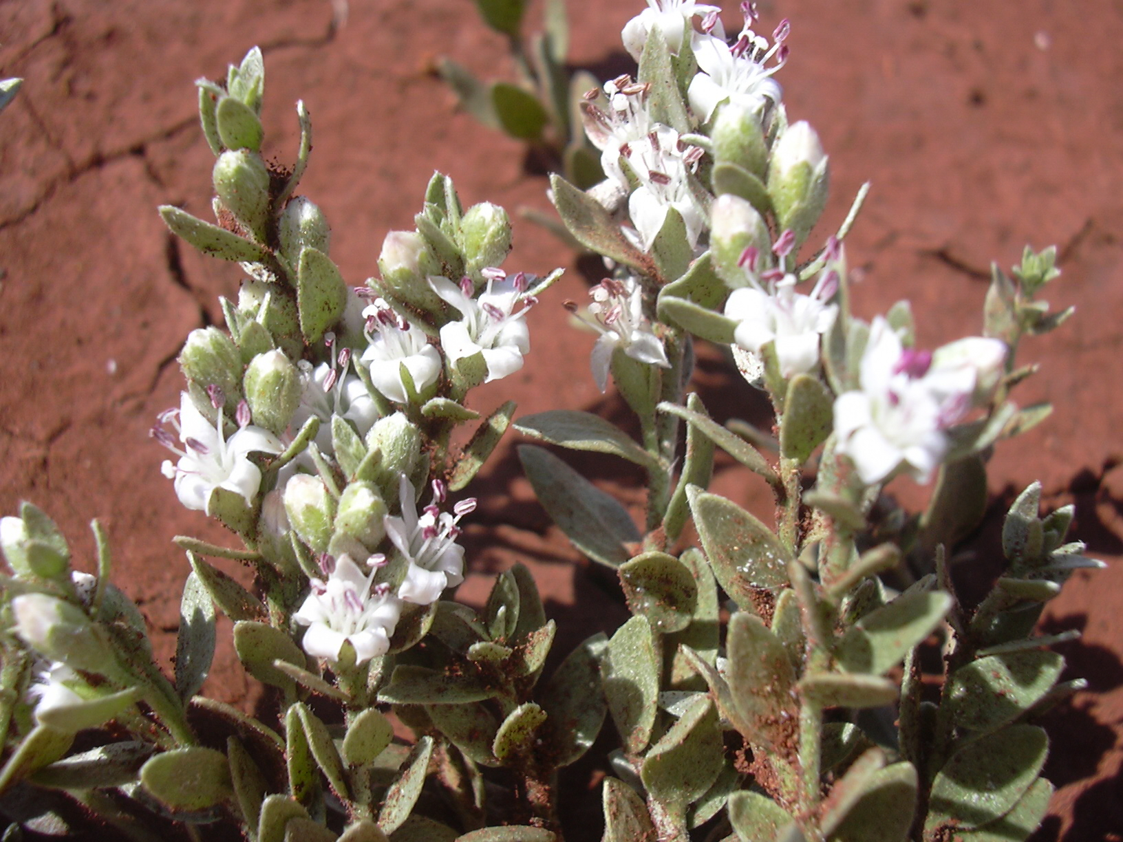 Cressa truxillensis (flowers). Location: Kahoolawe, Keanakeiki